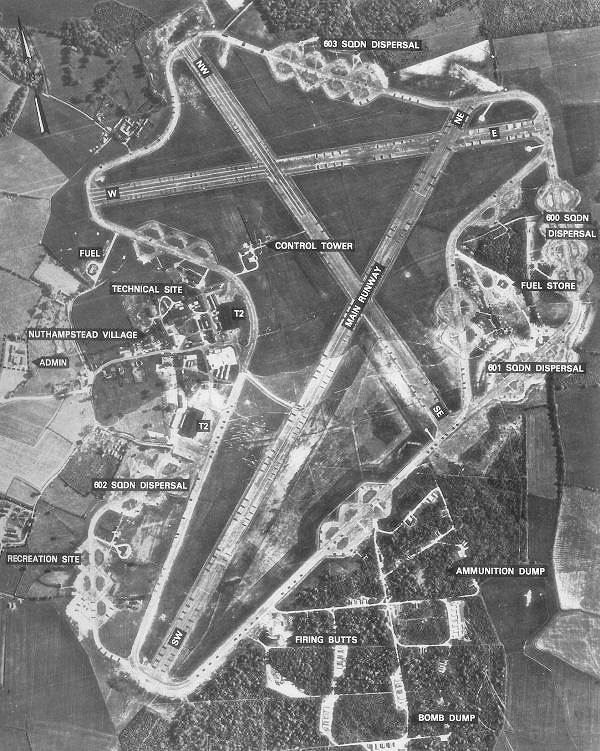 Aerial photograph of Nuthampstead Airfield, England.